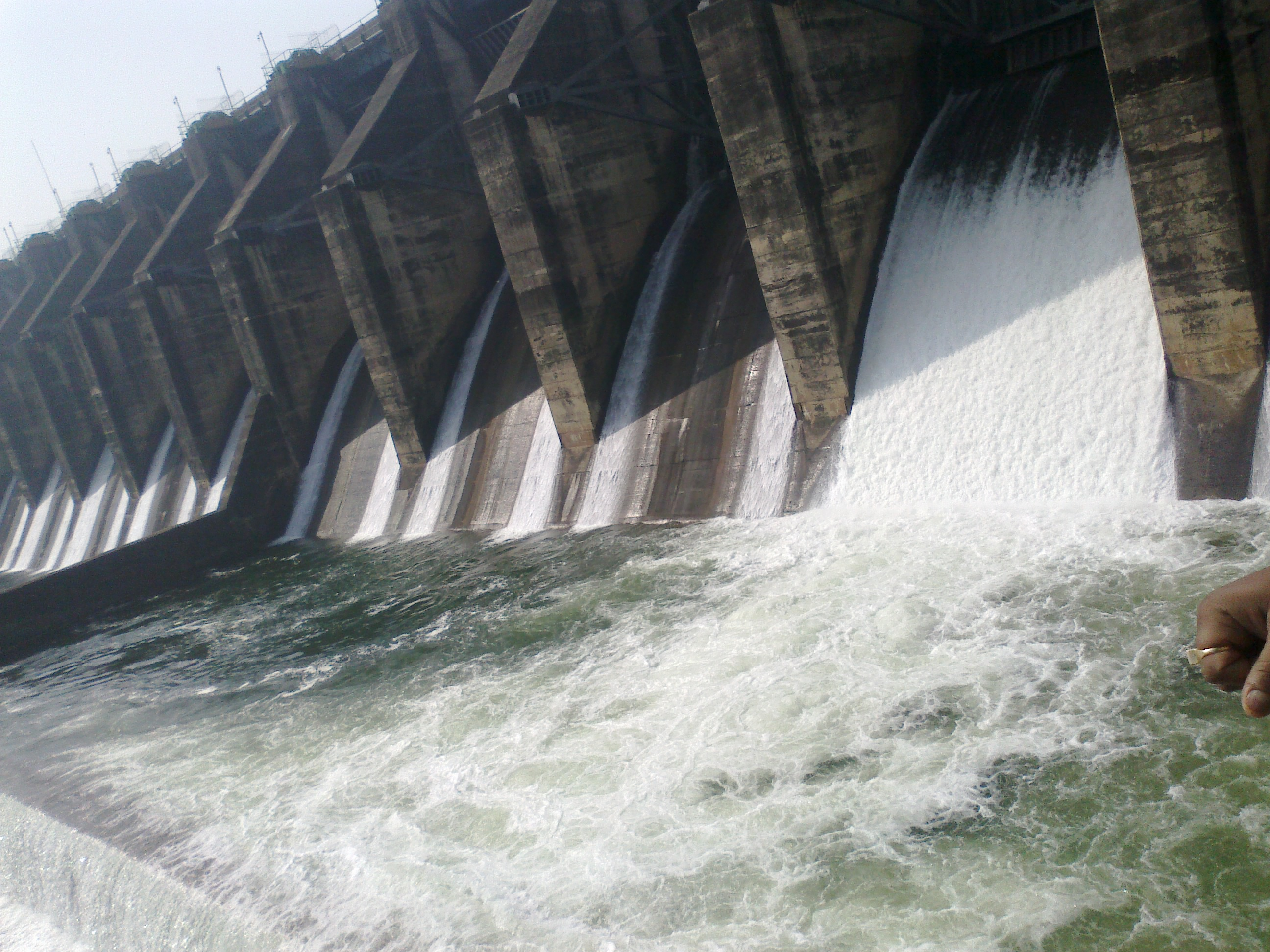 panchet dam side view